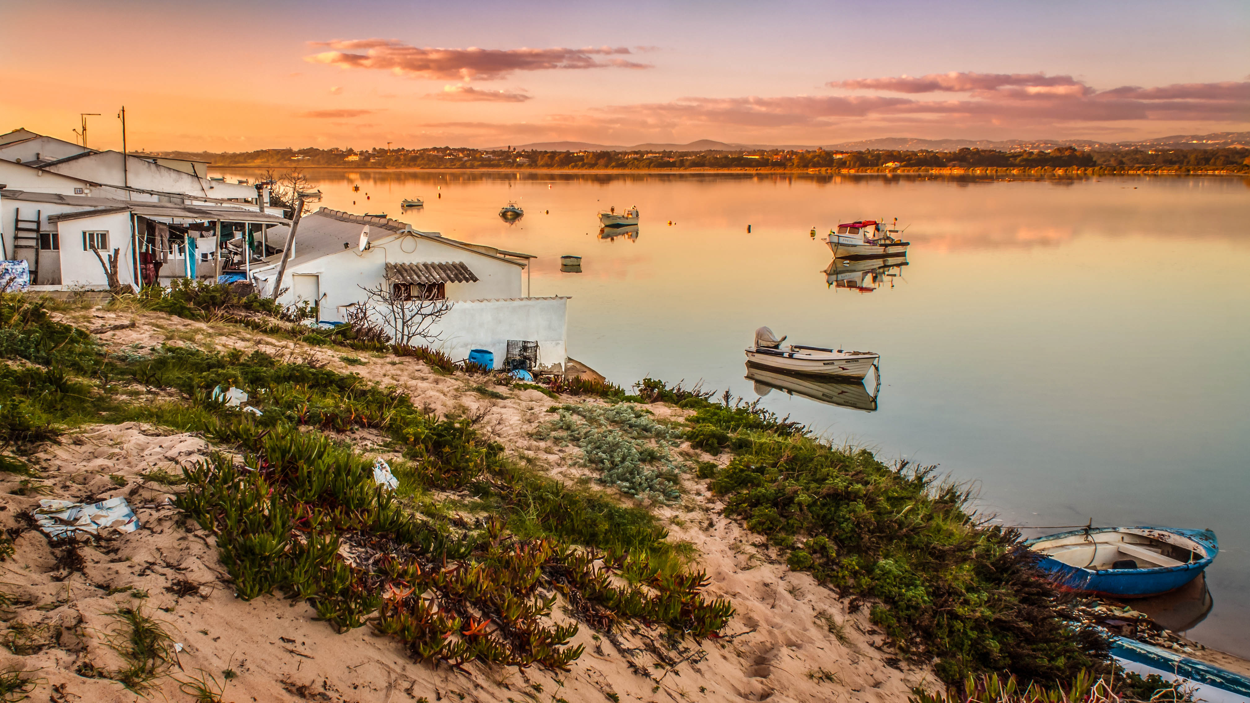 This is a photography of a Site of Community Importance in Portugal with the ID: PTCON0013. Natura2000 entry, EEA entry